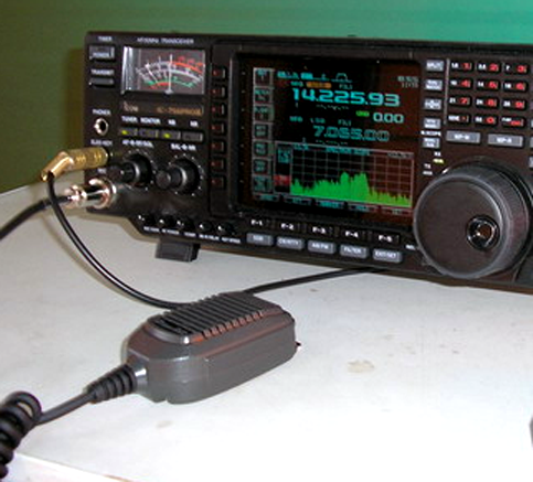 Icom amateur radio by -- LuckyLouie 21:43, 5 January 2007 (UTC)